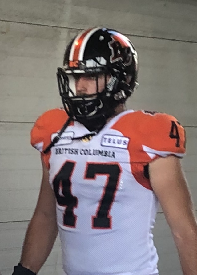 Frederic Chagnon, linebacker for the BC Lions.